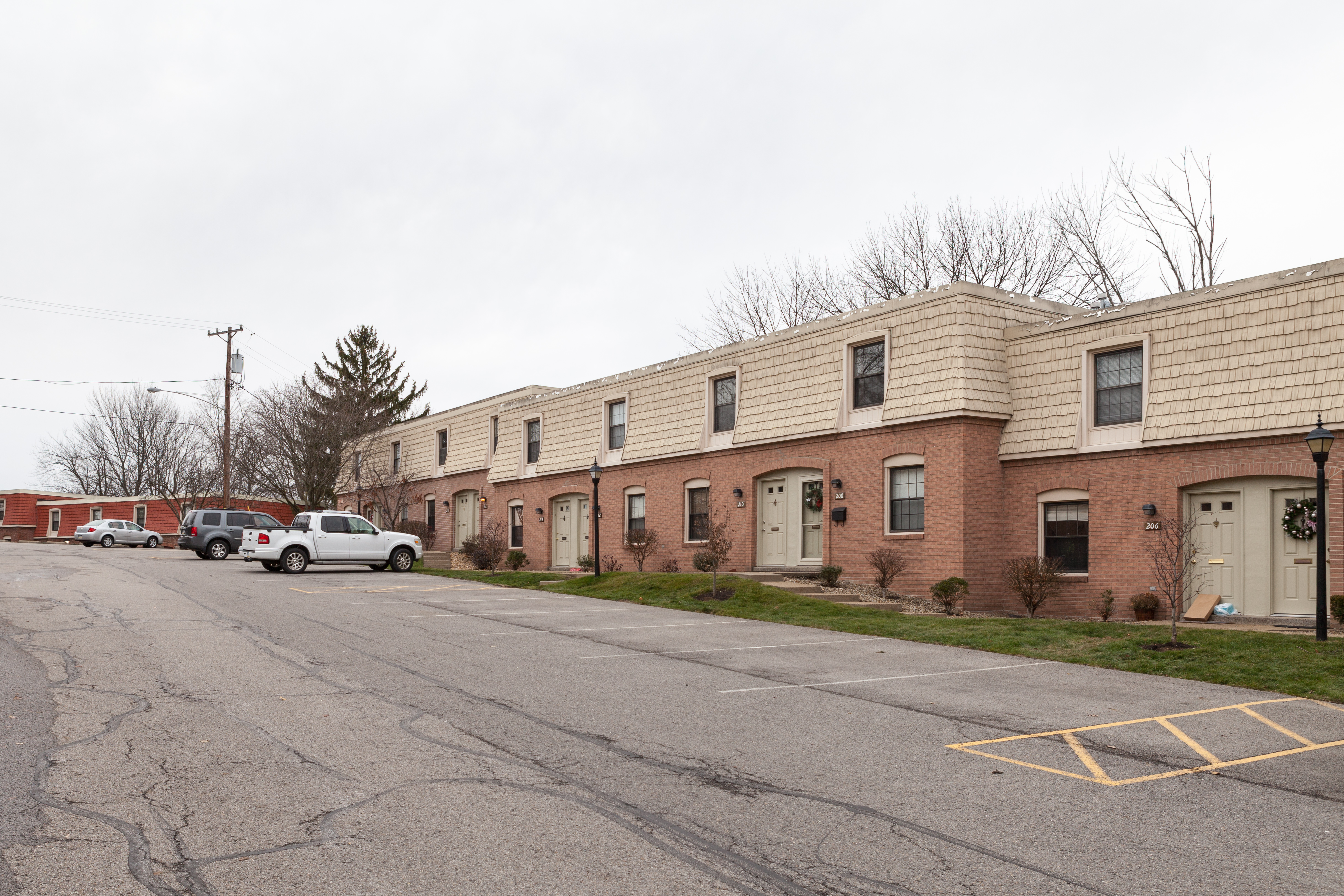 Colony Court, a road in the borough of Pennsbury Village, Pennsylvania, a tiny municipality consisting only of condo-style houses.